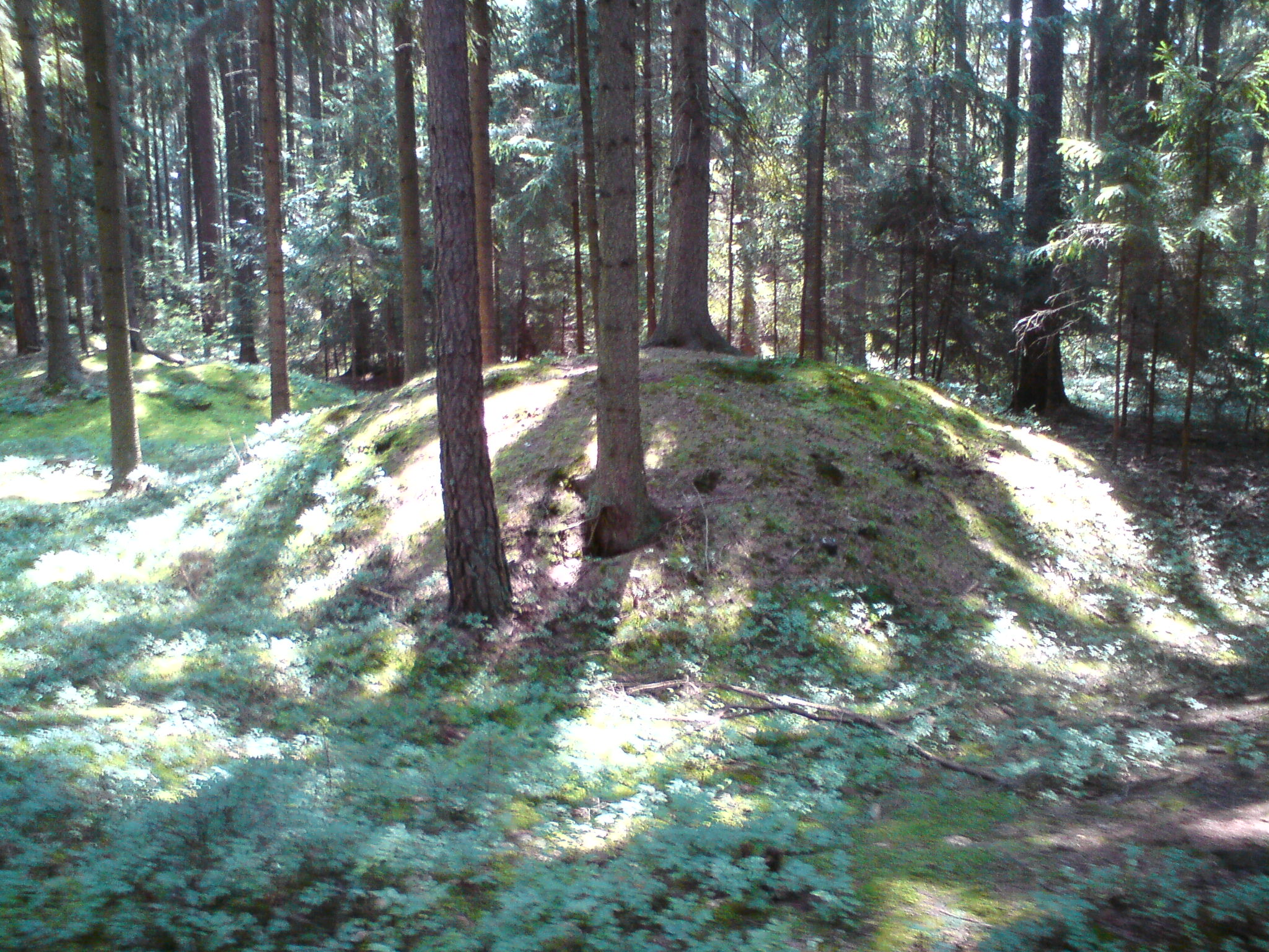 Slavic tumuli (c. 8/9th century AD) at hill of Baba (570 m) near Vitín, České Budějovice District, South Bohemian Region, Czech Republic.